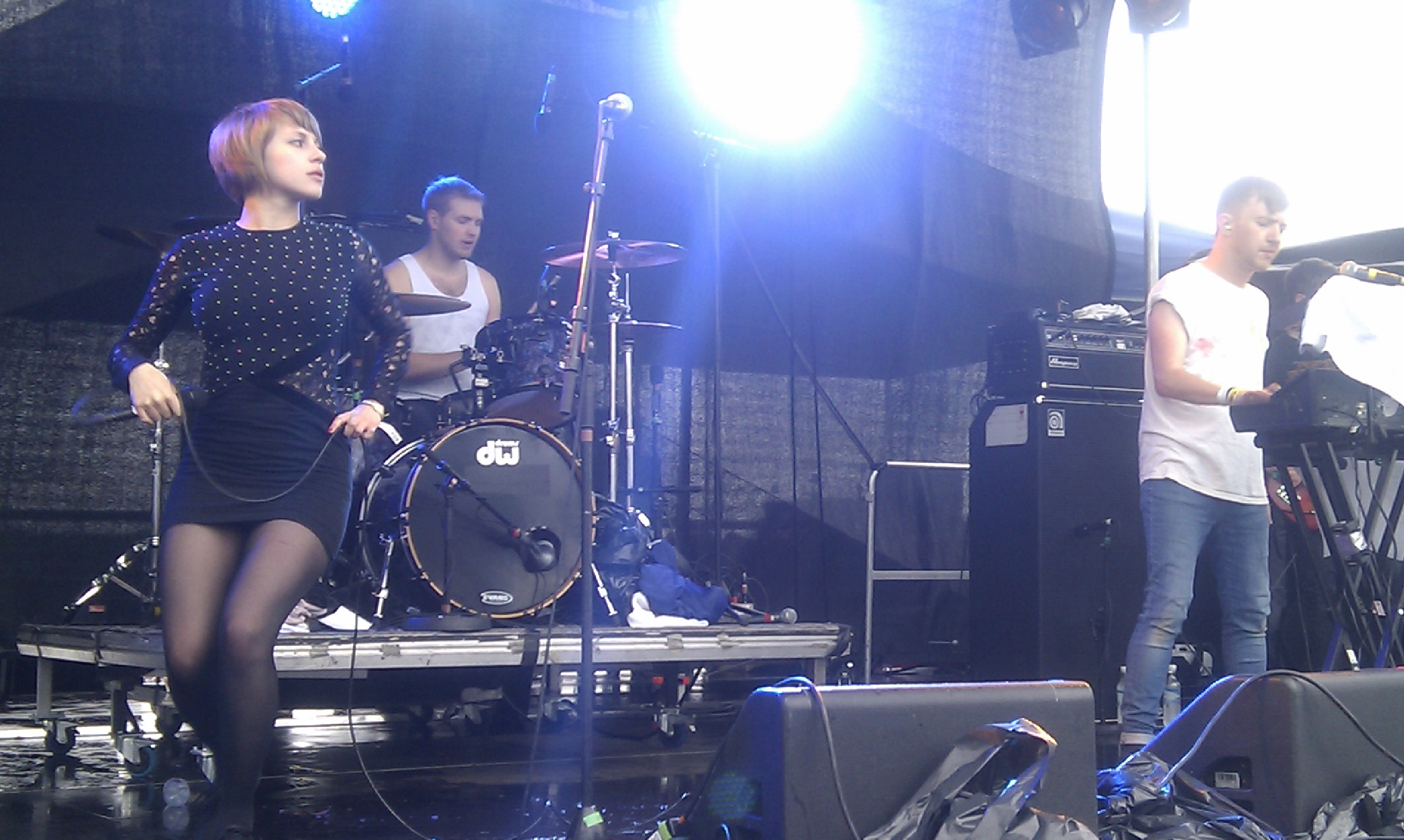 Rolo Tomassi performing at Slottsfjell Festival 2011 in Tunsberg, Norway. (left to right); Eva Spence, Edward Dutton, James Spence.